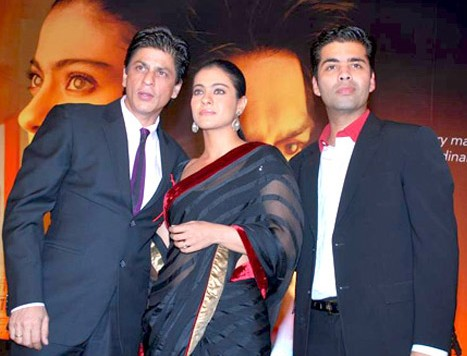 Shahrukh Khan, Kajol and Karan Johar unveil the first look of My Name Is Khan.